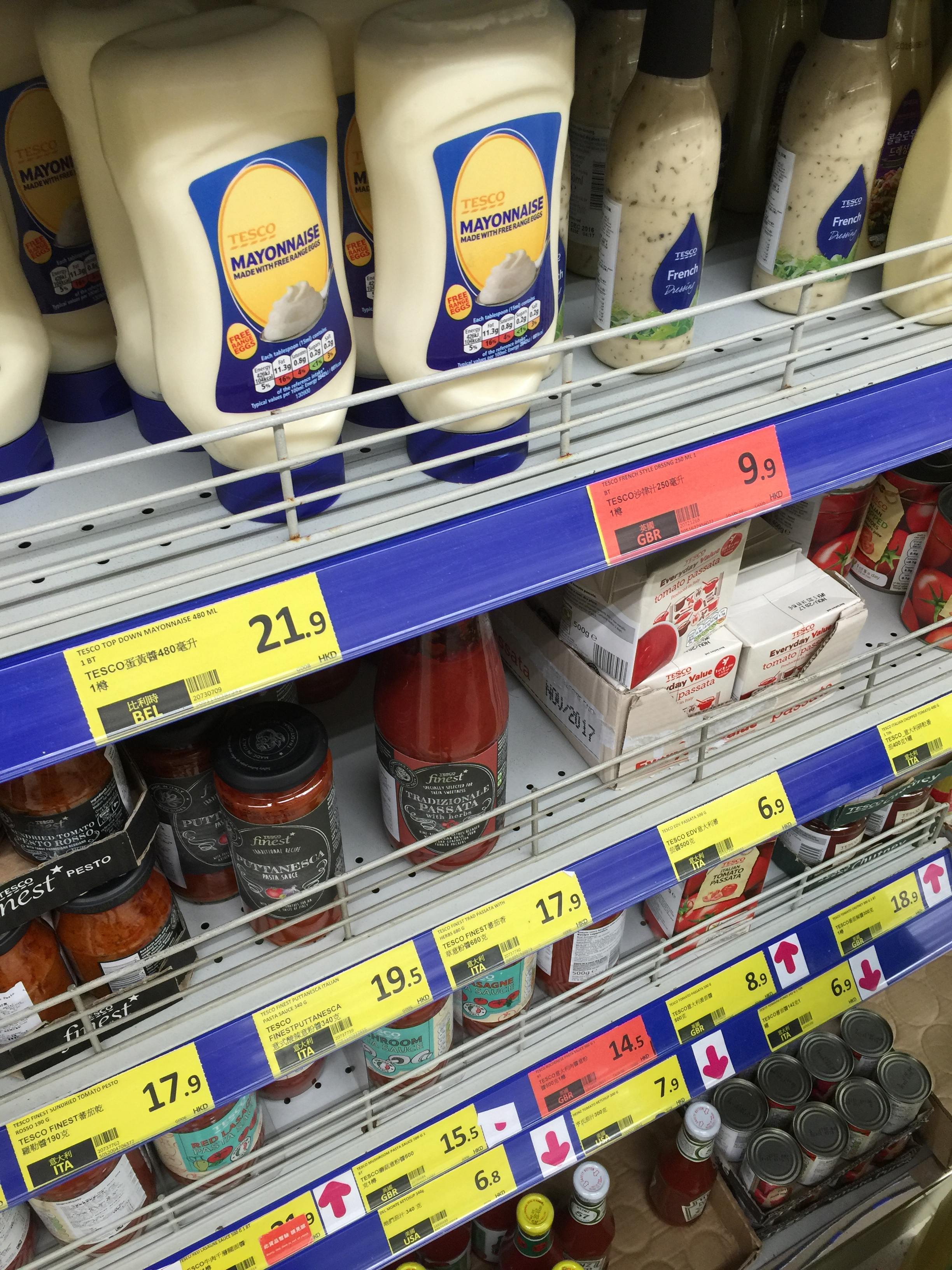 Joint venture between China Resources Enterprise (Vanguard) and Tesco